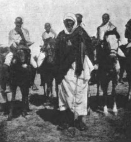 Ughaz Nur II , King of the Gadabuursi tribe